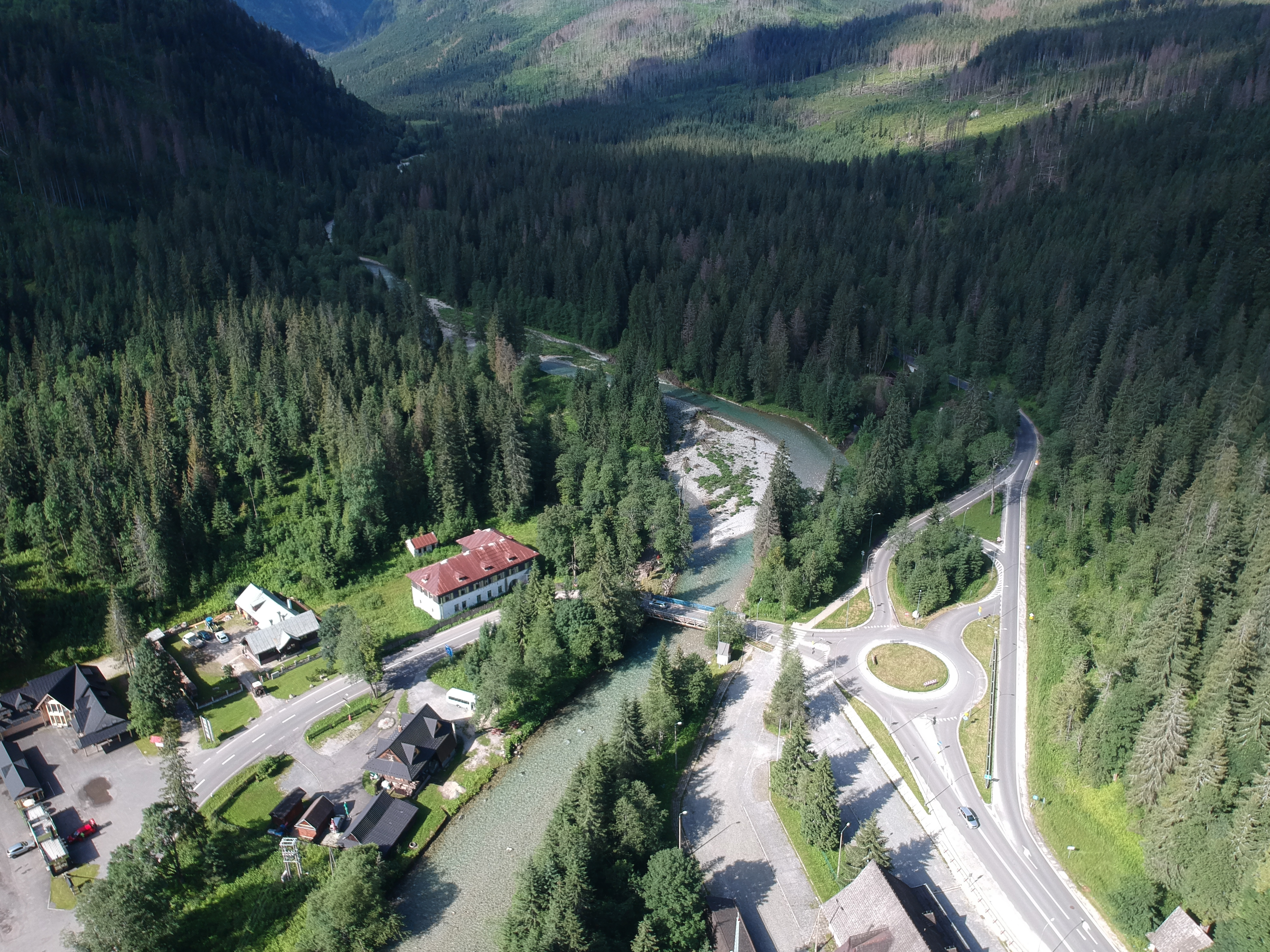 Łysa Polana, 3 July 2018